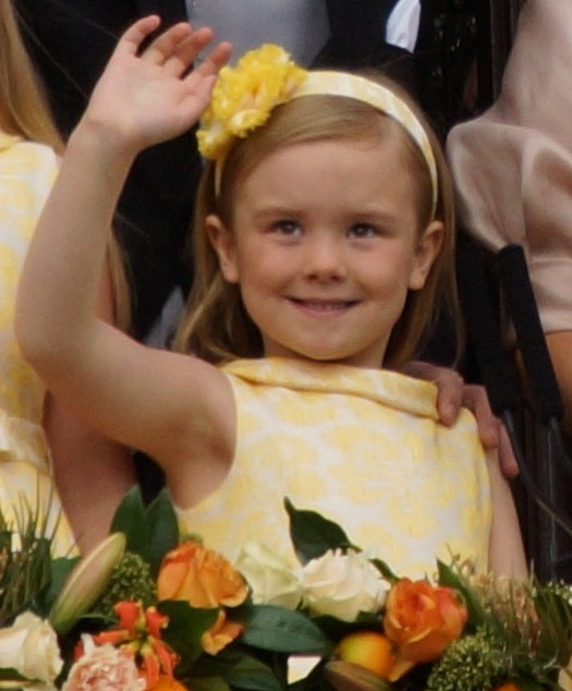 King Willem-Alexander, Queen Maxima and Princesses Catharina-Amalia, Alexia and Ariane during the balcony scene after the abdication of Beatrix.